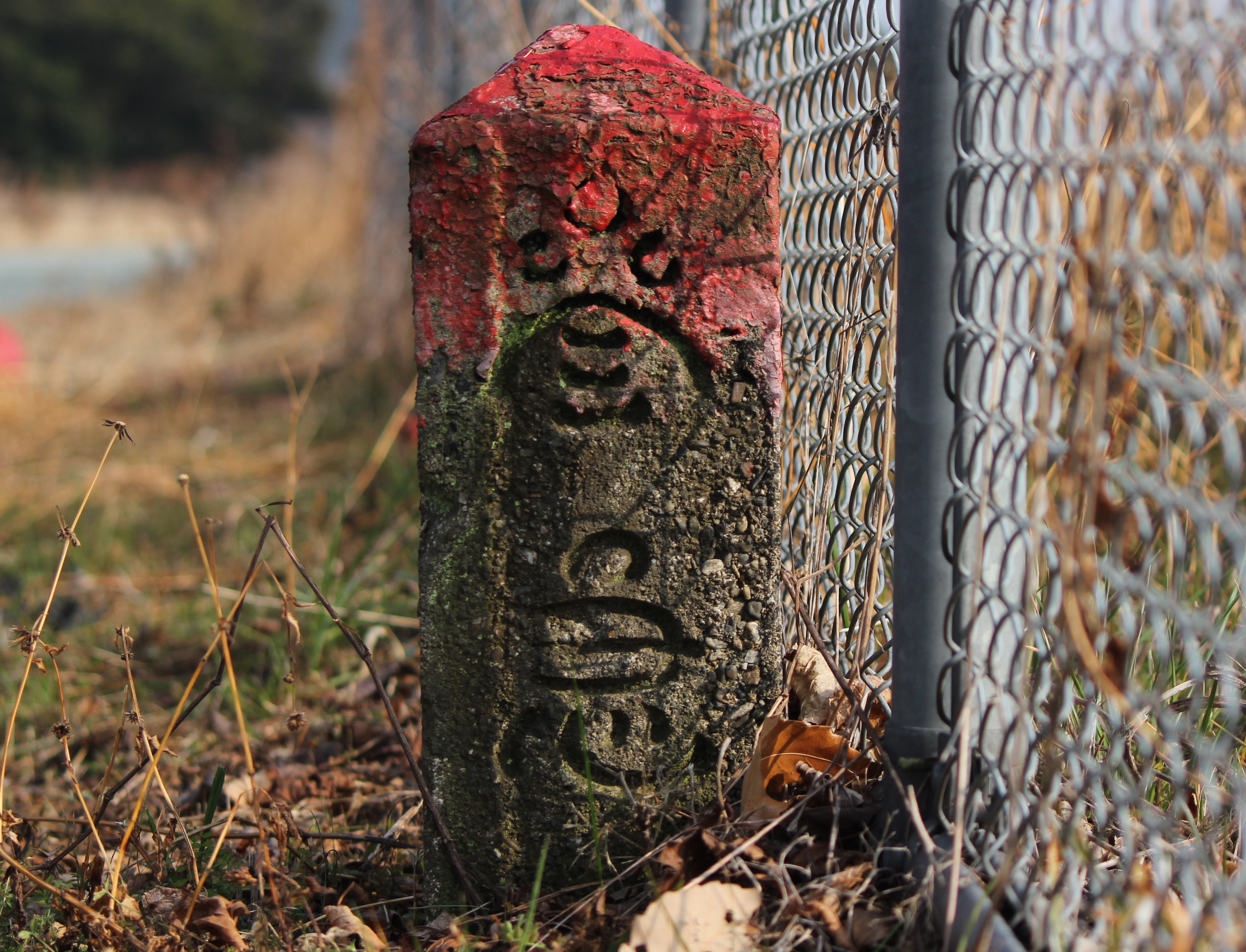 A boundary marker post for the former Sangu Express Railway, near Saiku Station on the Kintetsu Yamada Line in Mie Prefecture, Japan